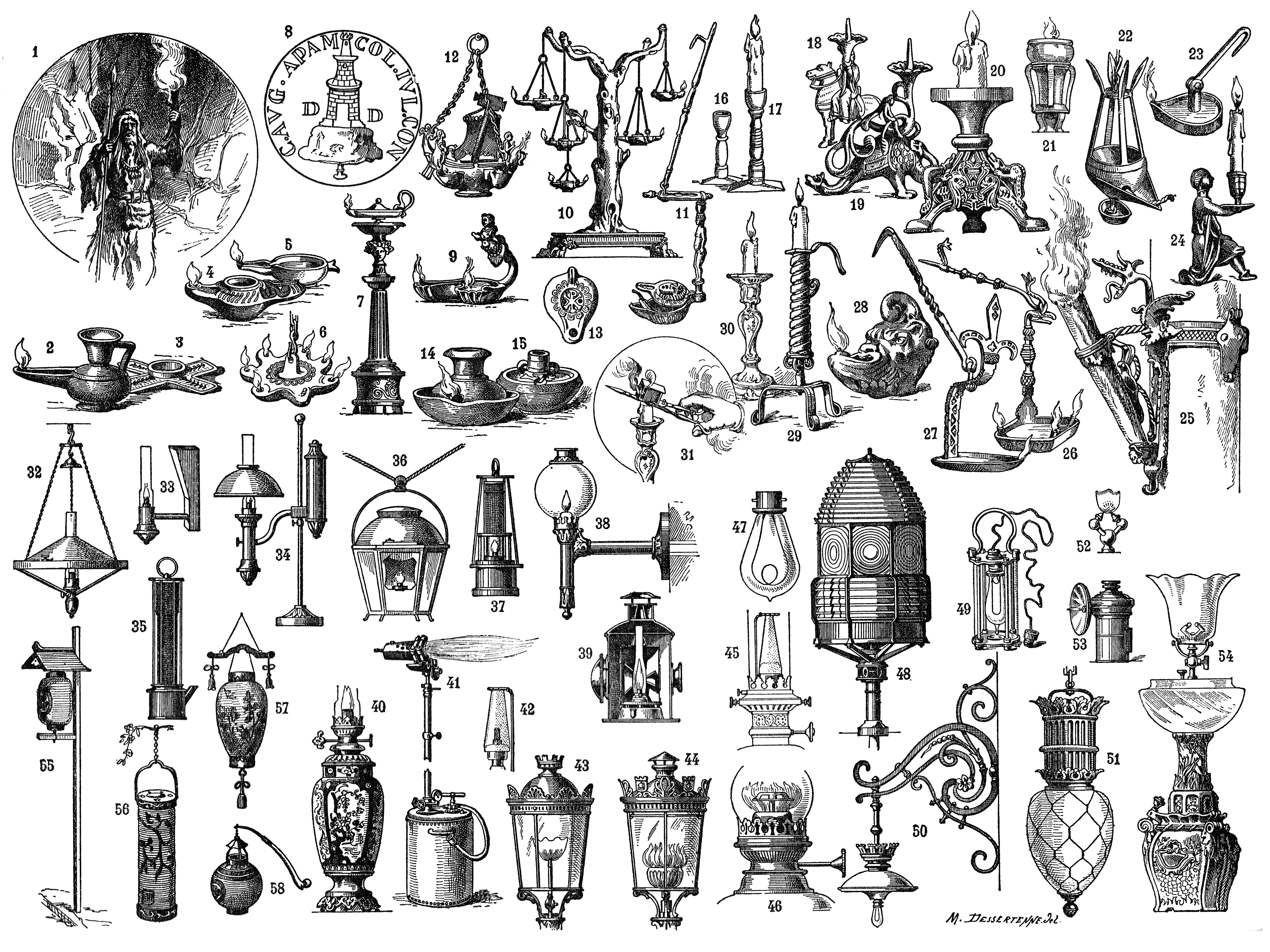 Lighting through the ages. Antiquity: 1. Prehistory. - 2-3. Egyptian - 4-5. Assyrian. 6-13. Roman. - 14-15. Carthaginian. - 16-17. Merovingian period. - Middle age and modern times: 19-20. 11th century. - 21. 12th century. - 22. 13th century. - 23-24. 14th century. - 25-26-27. 15th century. - 28. 16th century. - 29. 17th century. - 30-31. 18th century. - Contemporary period: 32. (original) Argand lamp. - 33-34. (Antoine Quinquet's improved) Argand lamp . - 35. Stephenson (Geordie) lamp (mines). - 36. Street light. - 37. Davy lamp. - 38. Air-fed wick lamp (theatre). - 39. Railway lamp. - 40. Carcel lamp. - 41. Gasifier. - 42. Auer (gas) lamp with gas mantle. - 43. Gas street lighting (regular burner). - 44. Gas street lighting (high intensity burner). - 45. Auer (petrol) lamp. - 46. (Air-fed) petrol lamp. - 47. Incandescent (electricity). - 48. Lighthouse (electricity). - 49. Mine lamp (electricity). - 50. Incandescent (electricity) [street light]. - 51. Arc light (electricity). - 52. Acetylene lamp (burner). - 53. Acetylene lamp (bycicle). - 54. Acetylene lamp (lamp). - Japan: 55. Street light. - 56. Transportation (rickshaw). - 57. Lantern for funerals. - 58. Portable lantern.